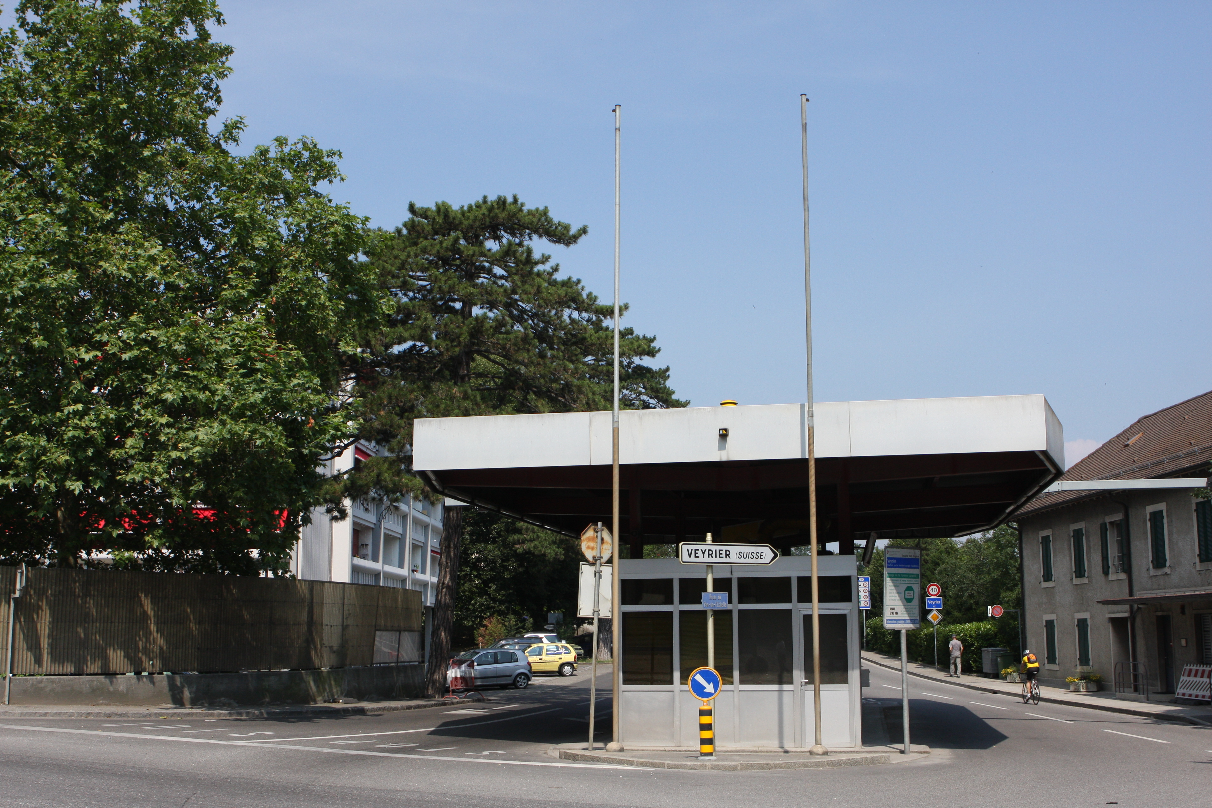 building at the border between Switzerland and France at the village Veyrier